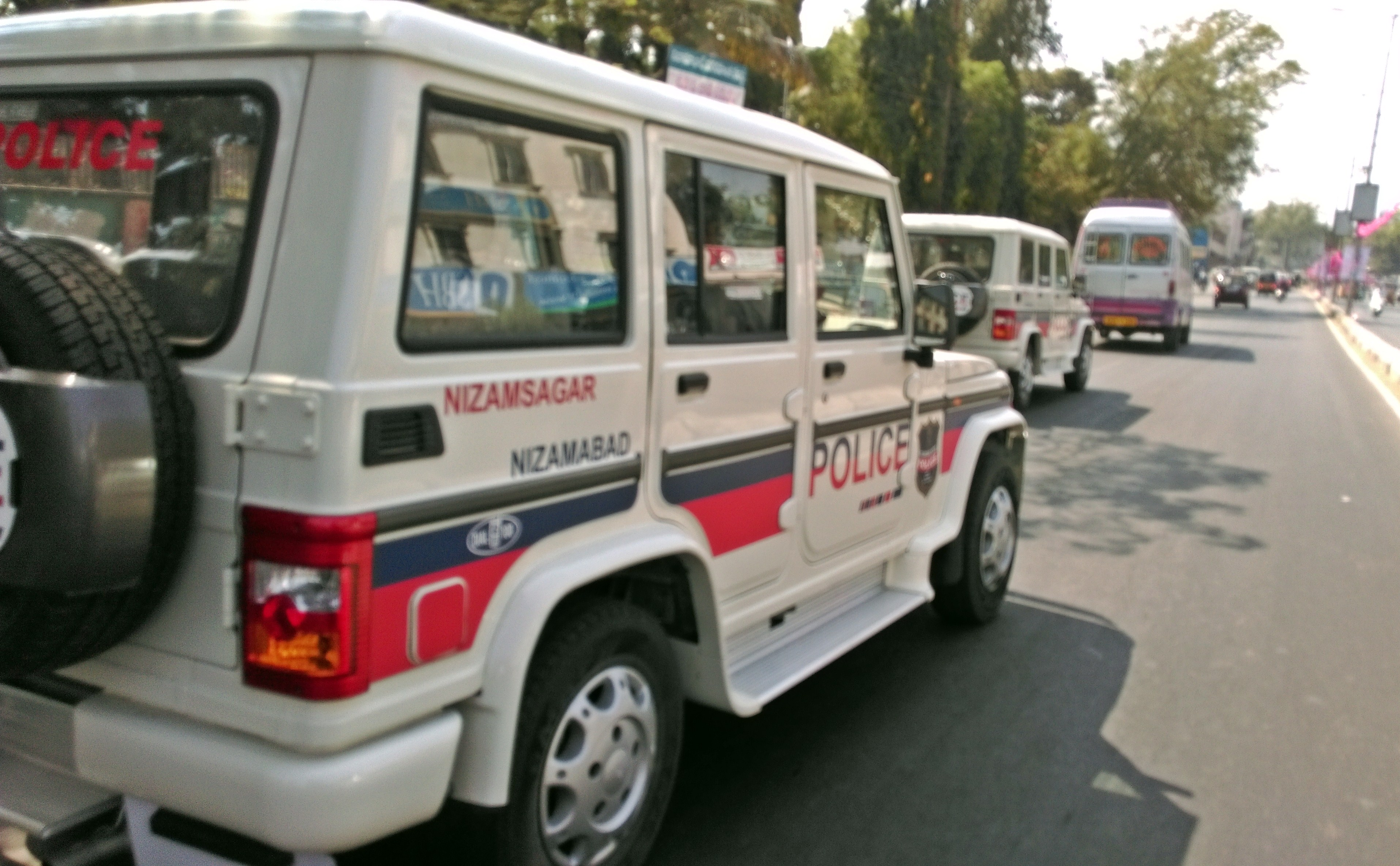 One of the 44 Mahindra Bolero SUV's belonging to Nizamabad police. The vehicle in the picture is of Nizam Sagar in Nizamabad district of Telangana state,India. Other information One of the 44 Mahindra Bolero SUV's belonging to Nizamabad police. The vehicle in the picture is of Nizam Sagar in Nizamabad district of Telangana state,India.